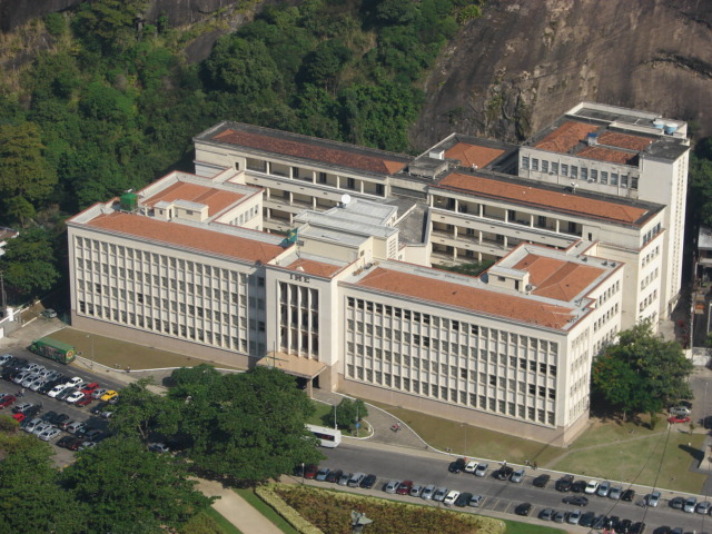 Military Engineering Institute building. Praia Vermelha (Red Beach), Rio de Janeiro, Rj, Brazil